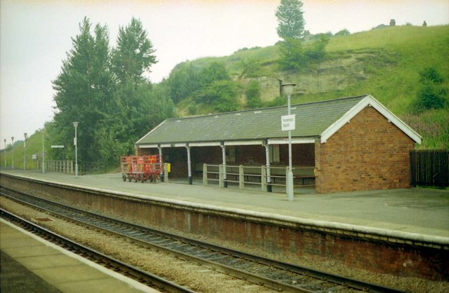 Pontefract Baghill Station